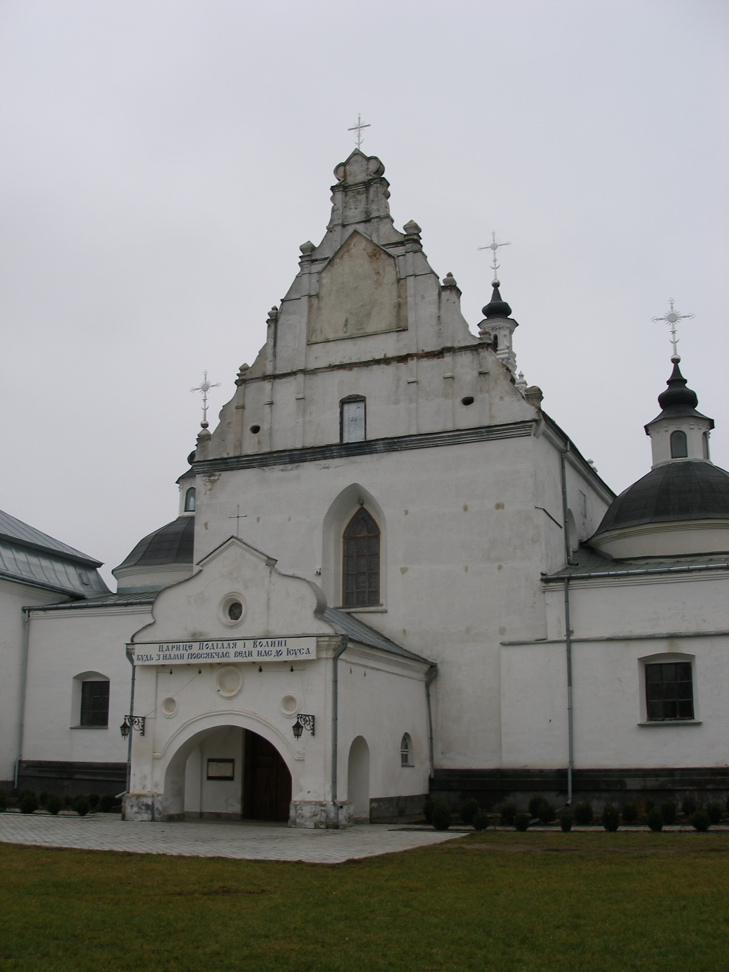 Dominican women's monastery in Letichiv, Khmelnitsky Region, Ukraine.